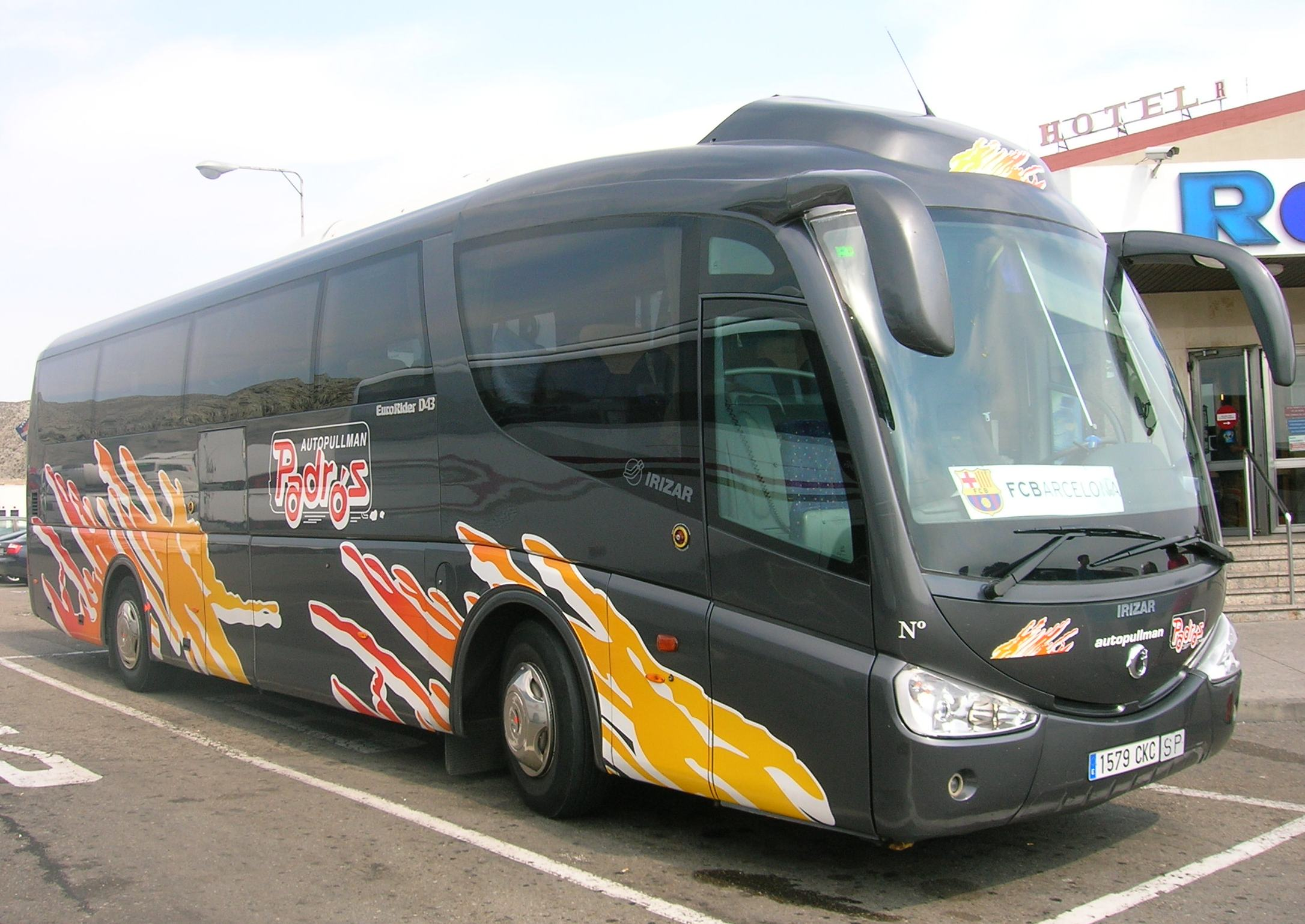 Irizar EuroRider D43 Autopullman Padrós with a Fútbol Club Barcelona sign in resting area of Alfajarín, province of Saragossa.